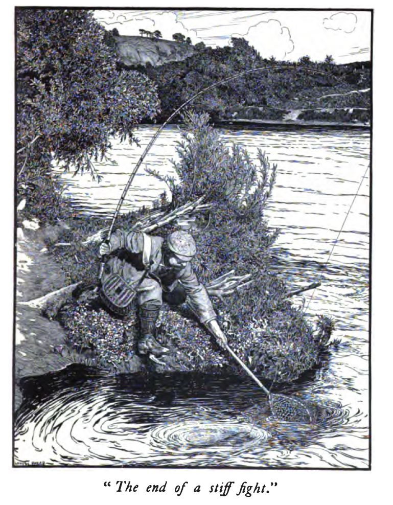 The End of a Stiff Fight - Louis Rhead 1902 from The Speckled Brook Trout